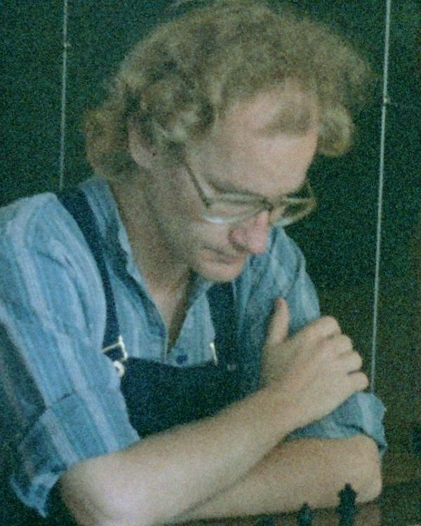 Darryl Johansen at the 3. International Tournament in Linz 1984, Photographer Gerhard Hund.